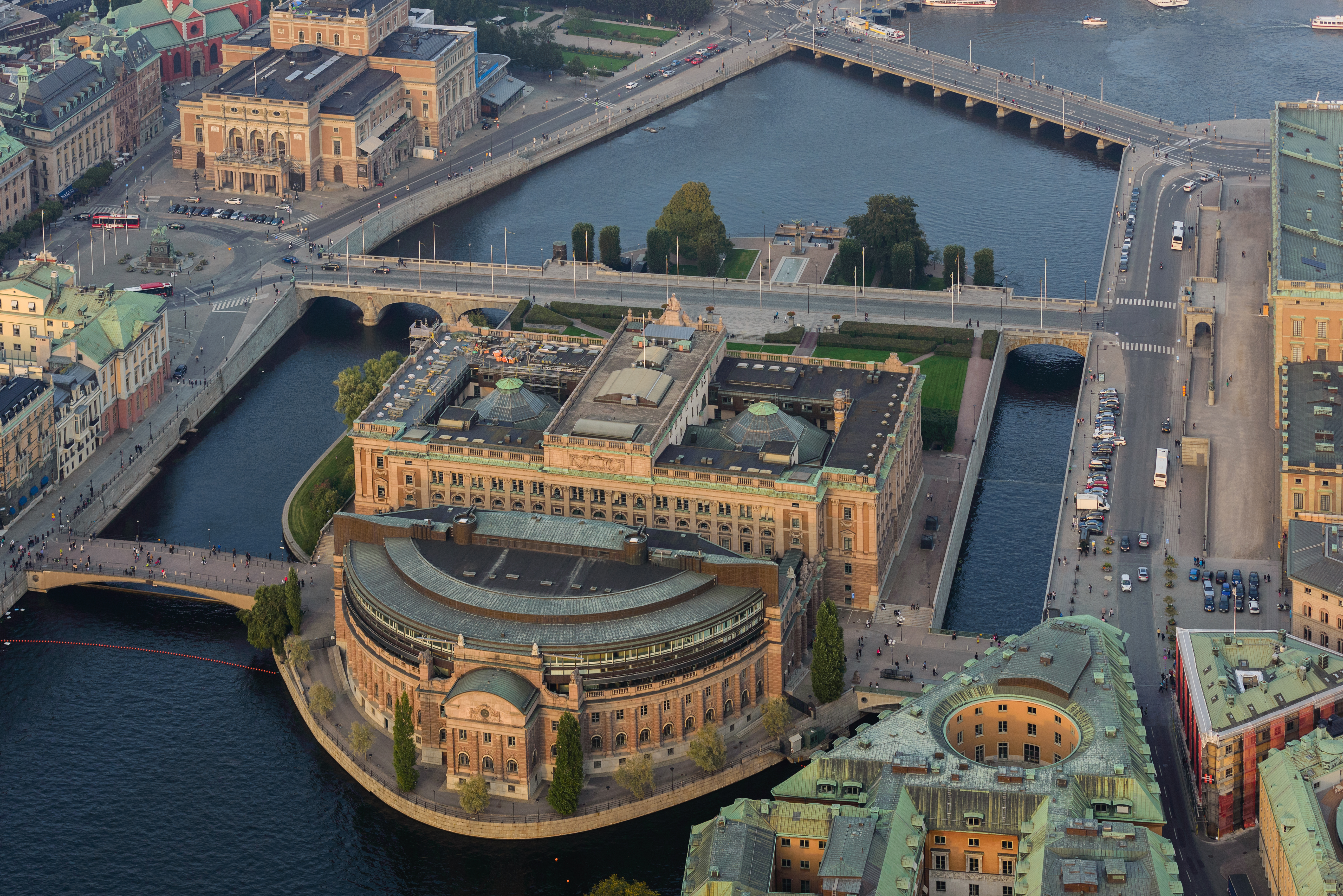 Sveriges riksdag (house of parlament).